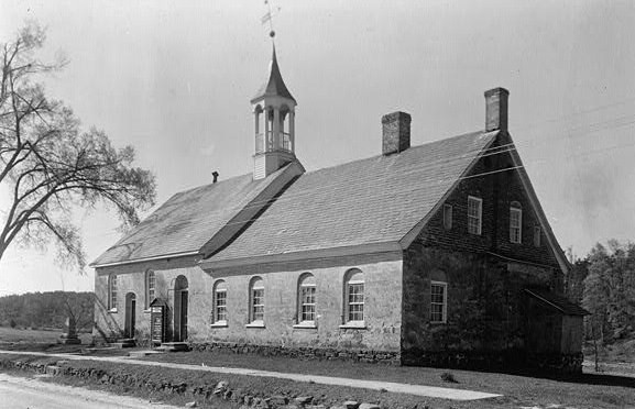 Bethabara Moravian Church — 2147 Bethabara Road (State Route 1681), Old Town (Forsyth County, North Carolina) (cropped). 1934 photo from the HABS—Historic American Buildings Survey images of North Carolina.